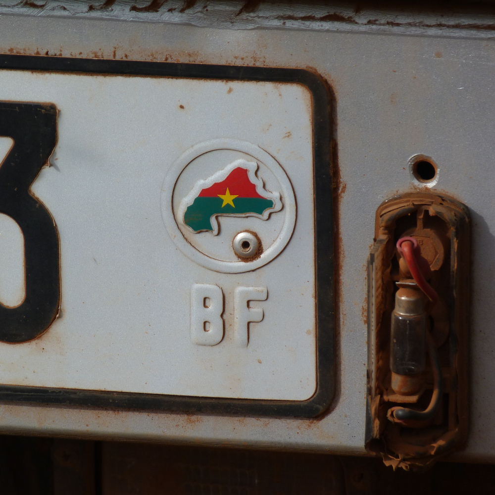 This is an image with the theme "Africa on the Move or Transport" from: Burkina Faso